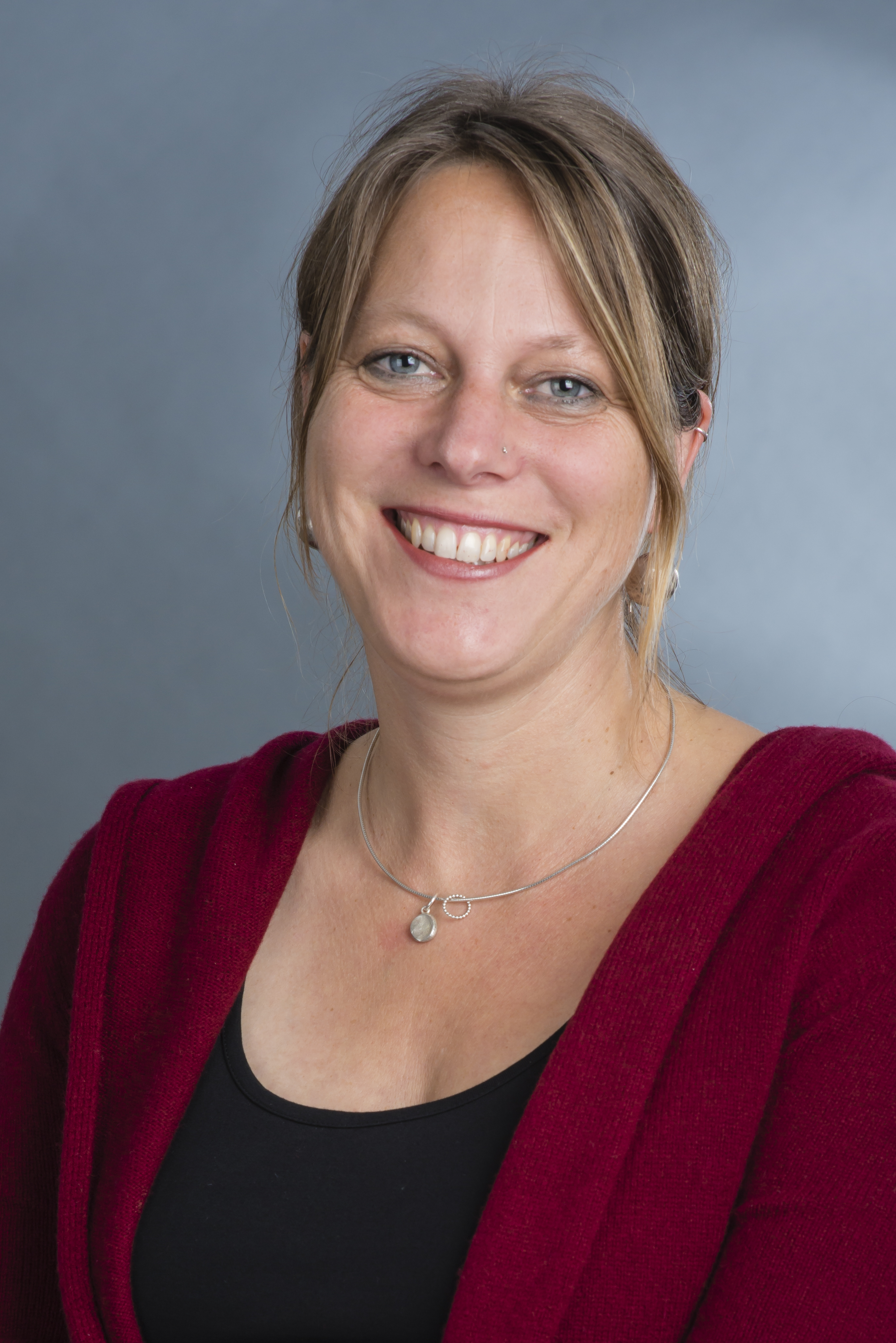 Maike Schaefer, Bremen politician (Bündnis 90/Die Grünen) and member of the Bürgerschaft of Bremen (as of 2019).